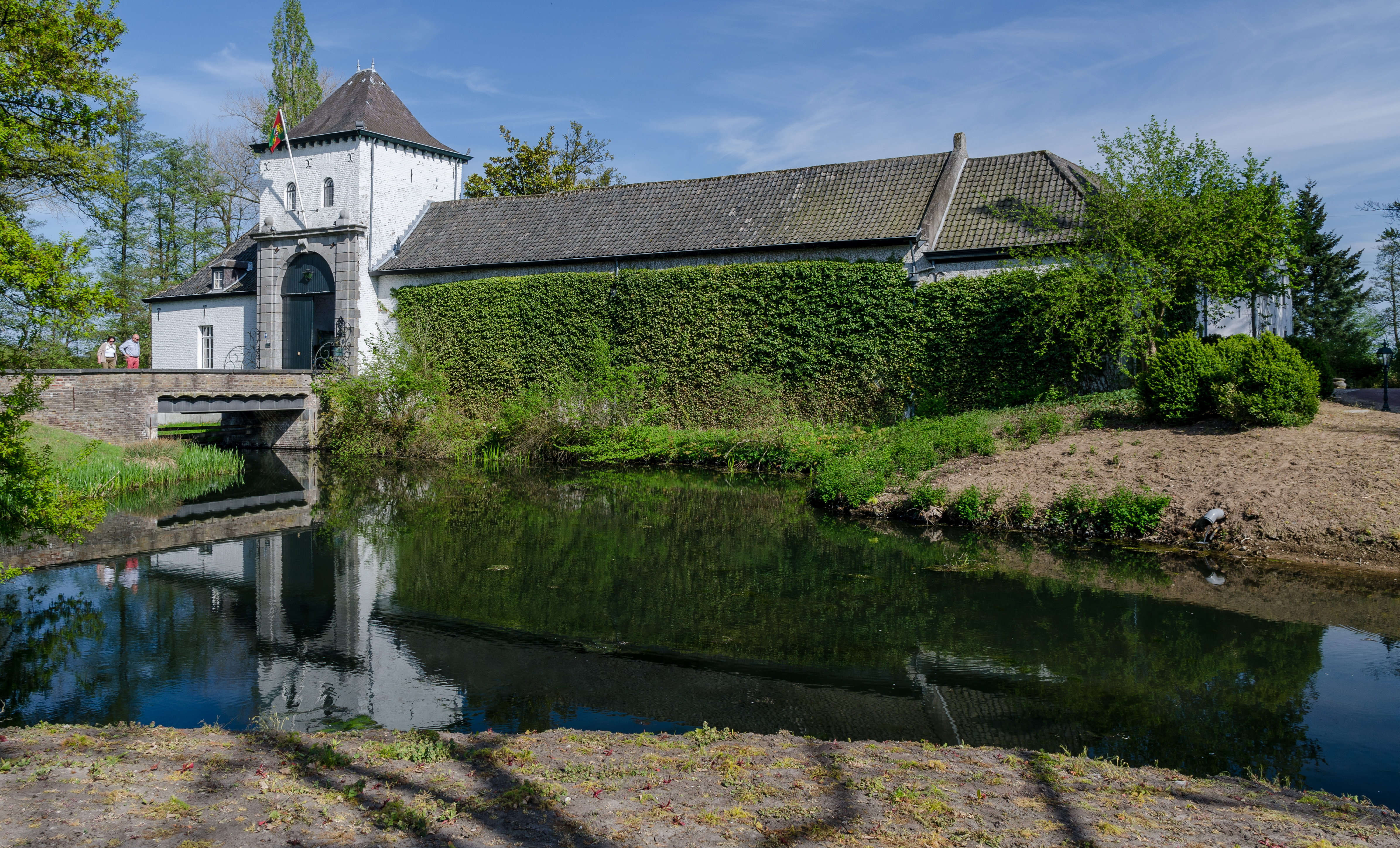 Daelenbroeck Castle in Herkenbosch, Netherlands